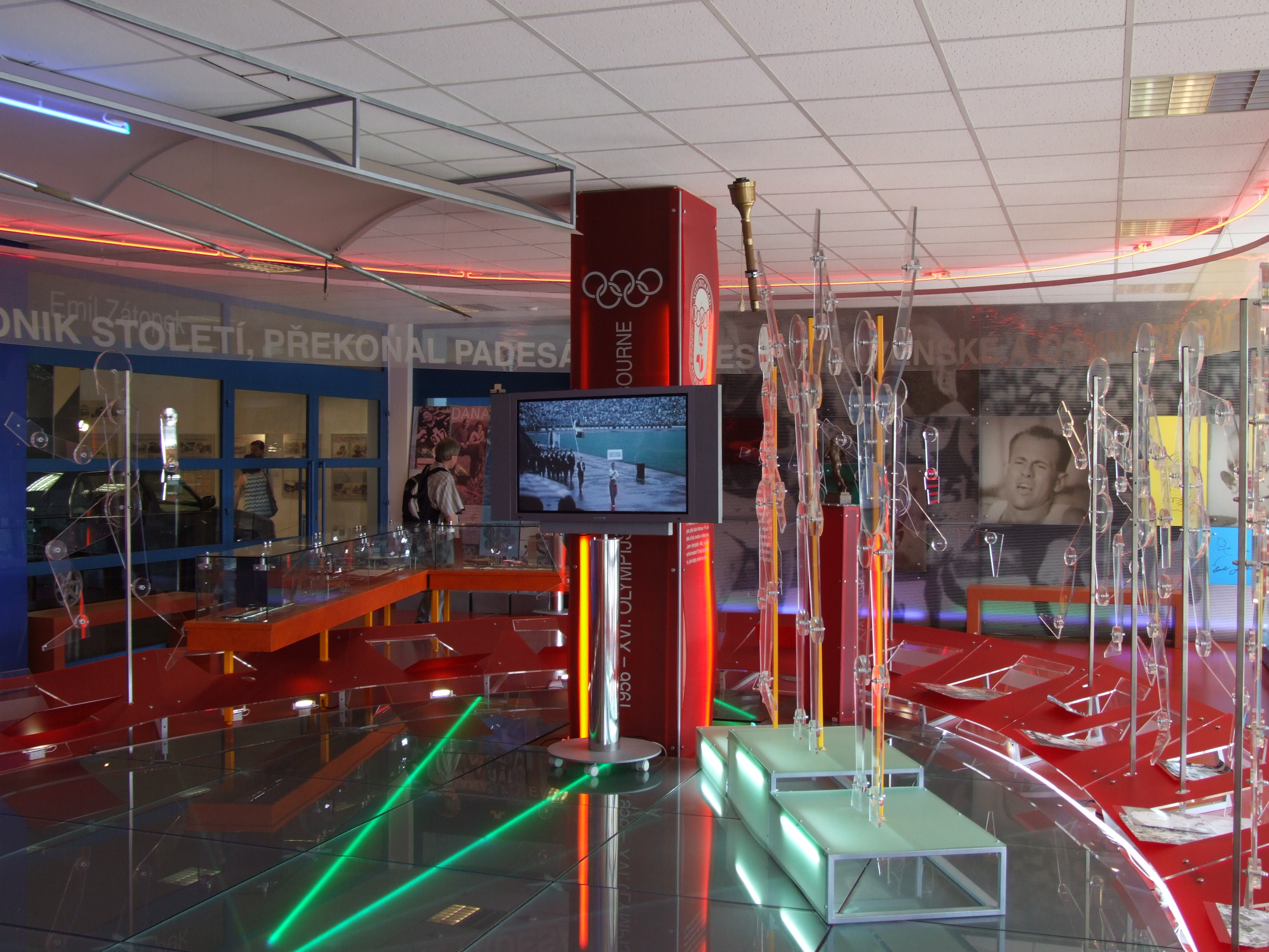 Emil Zátopek Museum in Kopřivnice